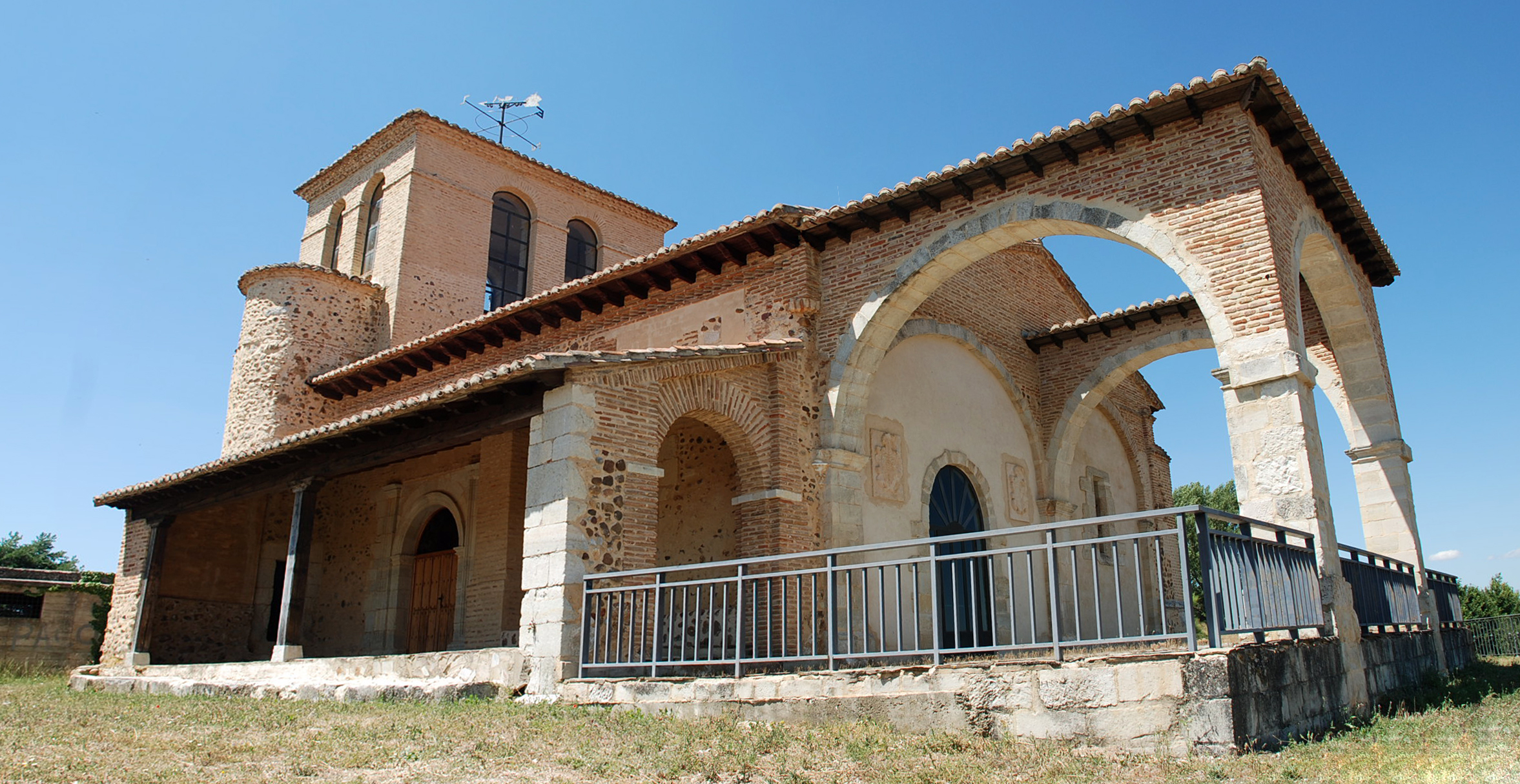 Church of Santos Justo y Pastor in Buenavista de Valdavia (Palencia, Castile and León).